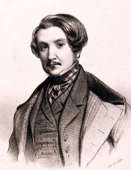 Italian composer Vincenzo Gabussi (1800-1846) by Marie-Alexandre Alophe (1812-1883)